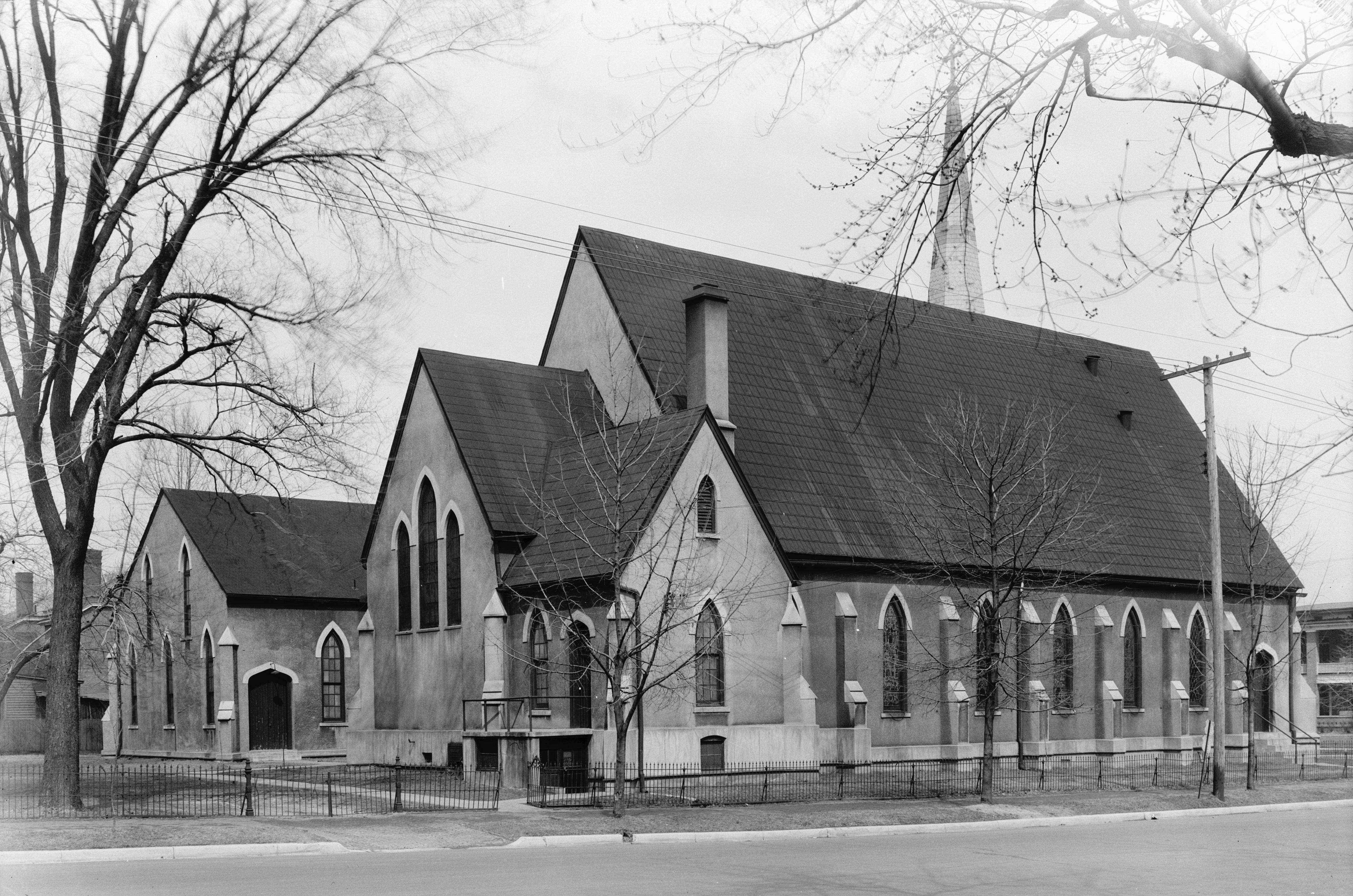 Side and rear of St. Paul's Episcopal Church, located at 338 Center Street in Henderson, Kentucky, United States. Built in 1860, it is listed on the National Register of Historic Places.